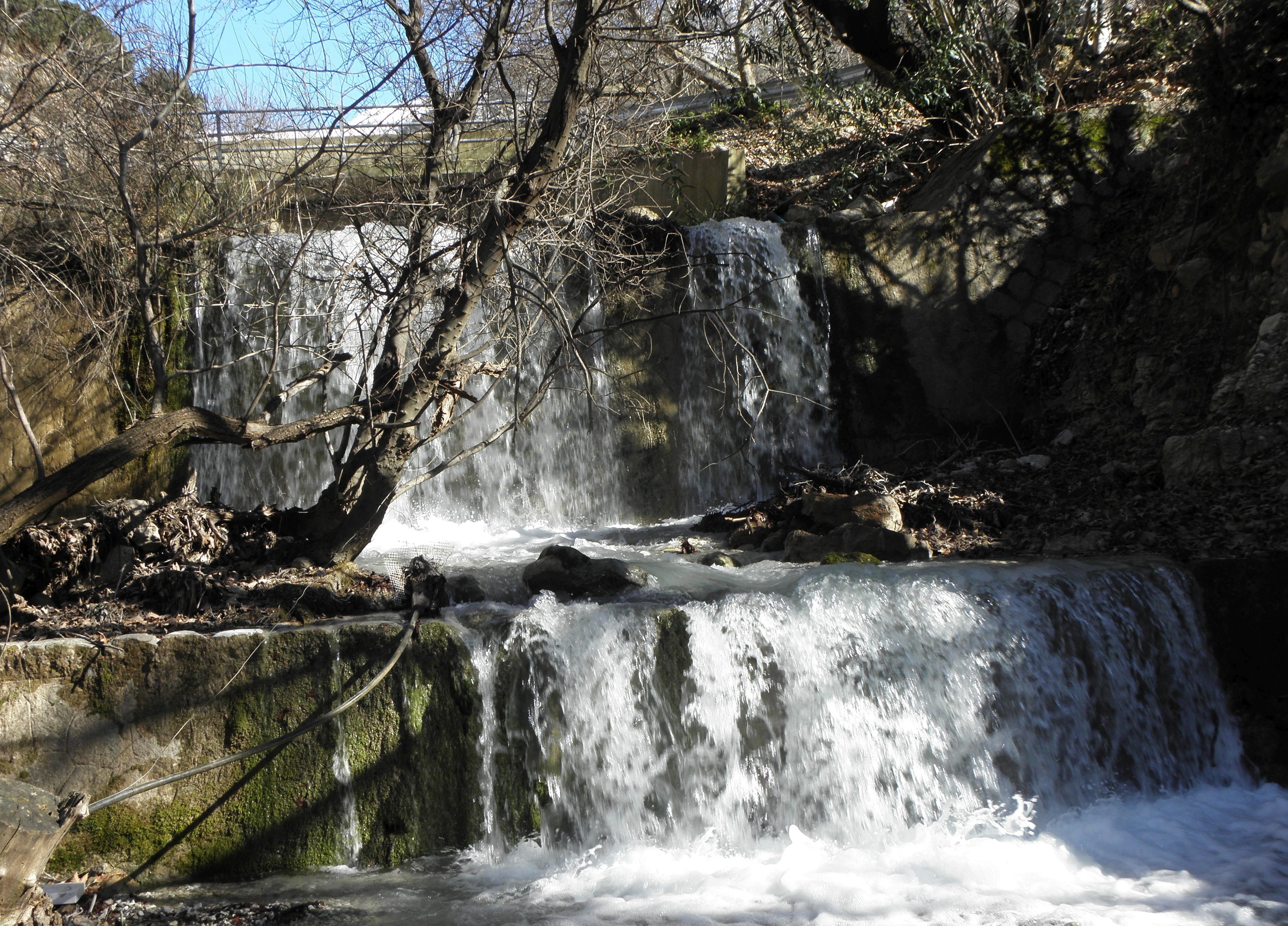 The waterfalls of Vervenikos/Dervenikos torrent near Agios Ioannis village of Souli Patras, Panachaiko Mt., Achaia, Greece.